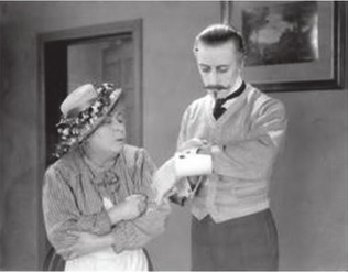 Clare Greet & Ernest Thesiger in Alfred Hitchcock's film Number Thirteen (1922) (aka Mrs Peabody). The film was never finished. According to a caption, the director, Hitchcock, had two assistant directors, A.W. Barnes and Norman Arnold. Cameraman was Joe Rosenthal.